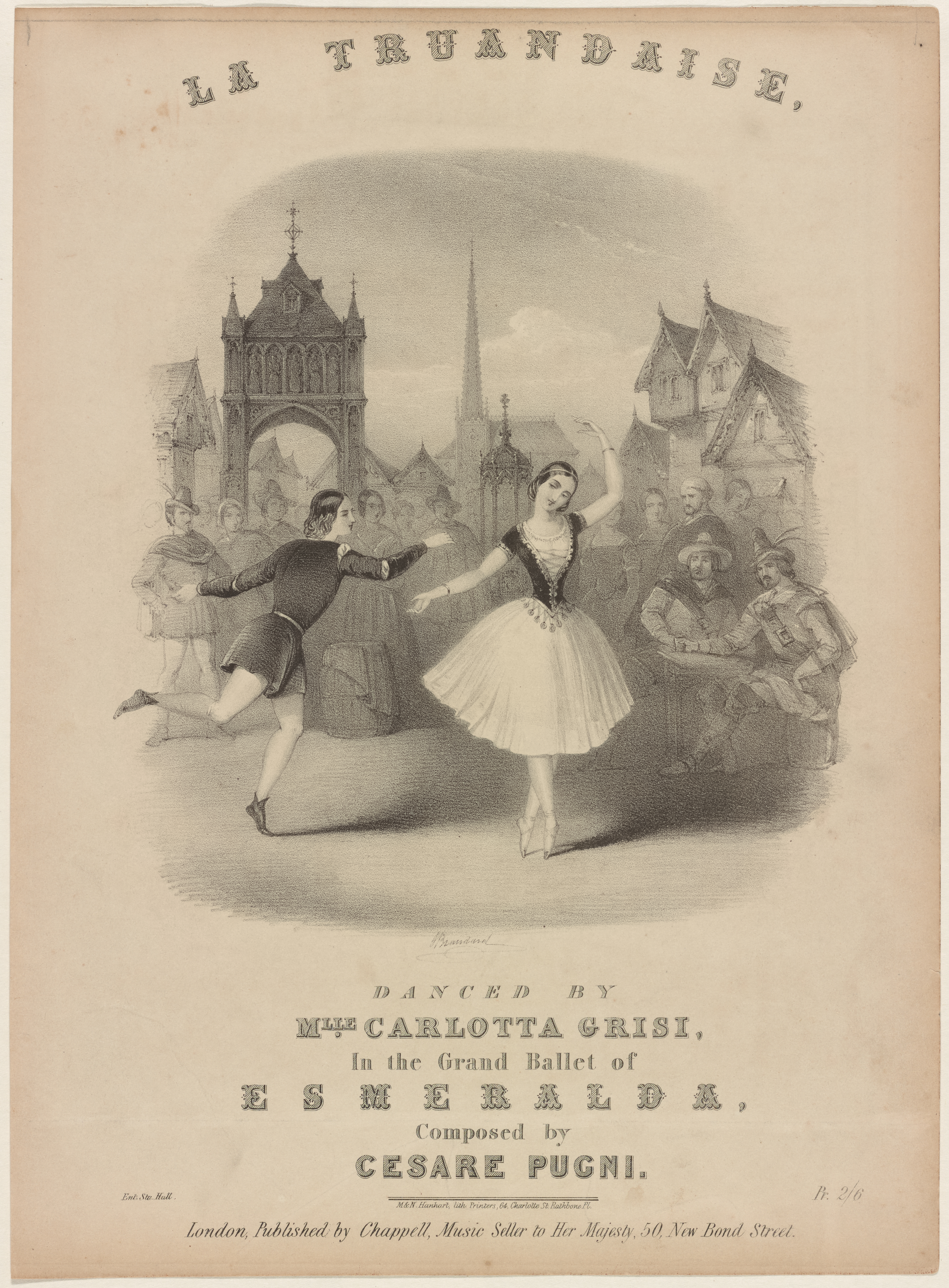 Depicts Grisi at right and Perrot at left, dancing together, with people gathered in the background.